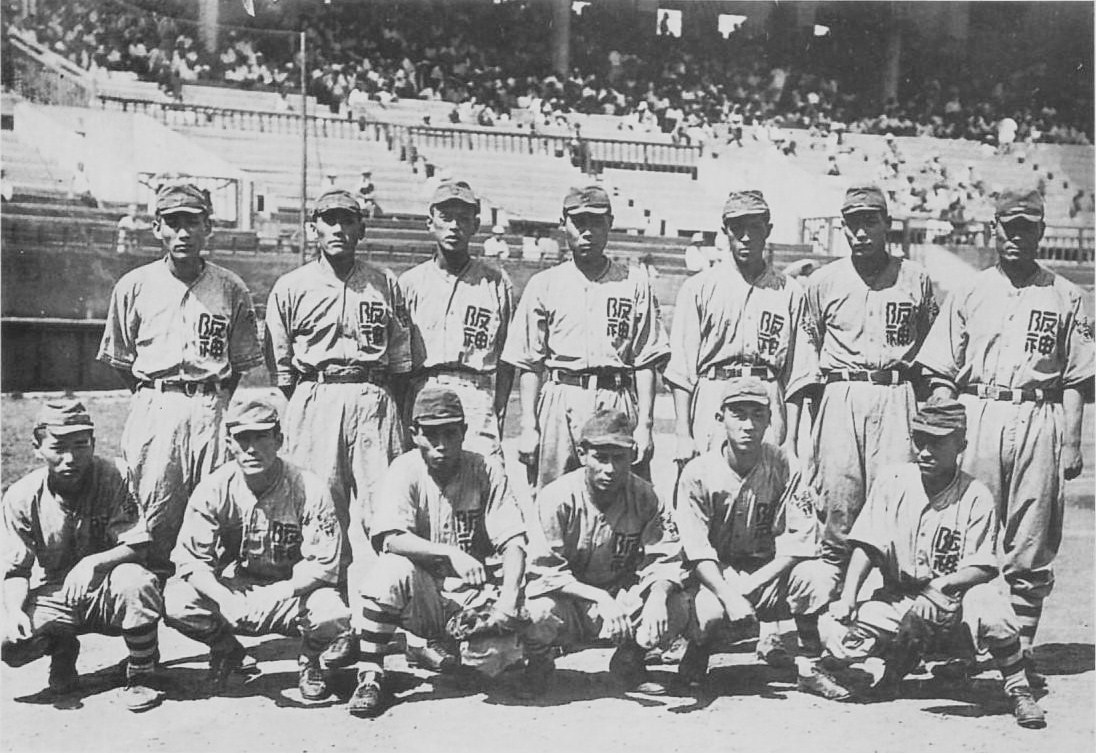 Hanshin Tigers a member of the 1944.